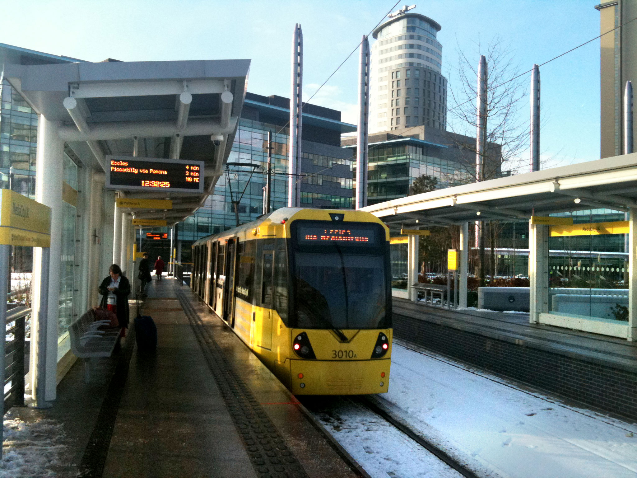 MediaCityUK Metrolink station in Manchester, UK